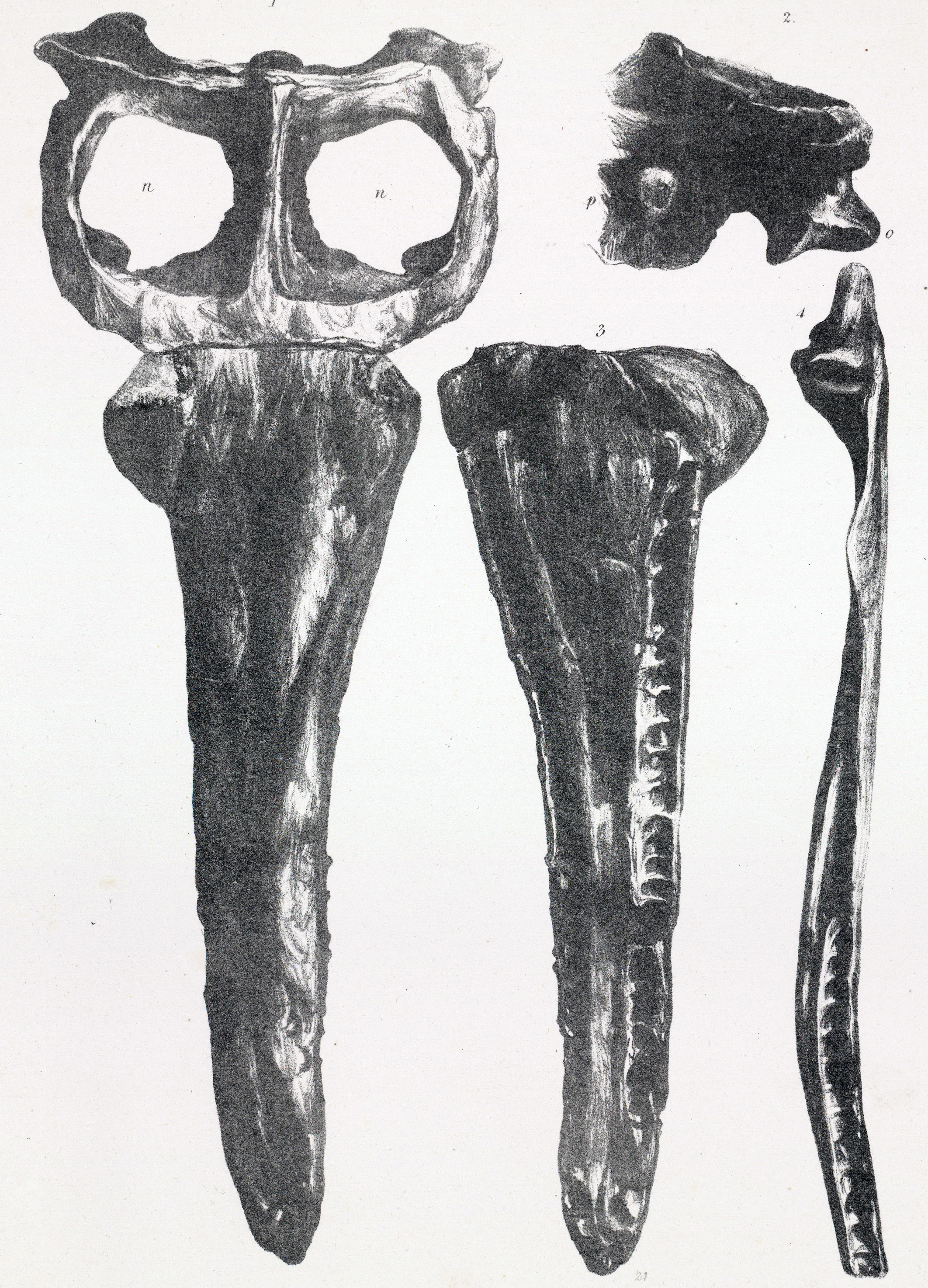 Fig. 1. Upper view of skull of Metriorhynchus geoffroyii (Steneosaurus temporalis). Fig. 2. Portion of occipital surface of do. Fig. 3. Under view of maxillary portion of do. Fig. 4. Upper view of lower jaw of do. (The figures are reduced views.) From the Oolitic Freestone, Bath.